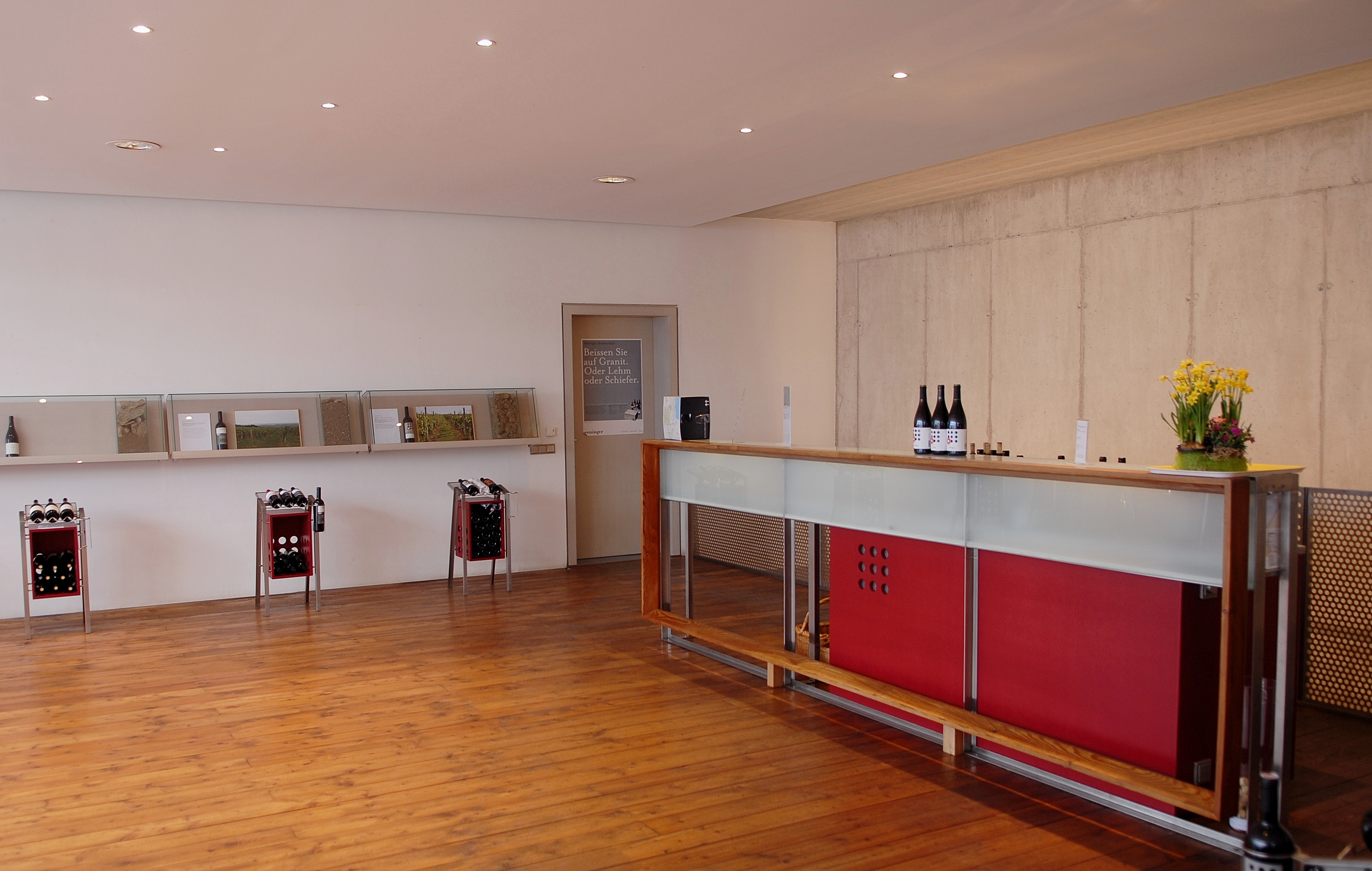 Weingut Weninger, interieur